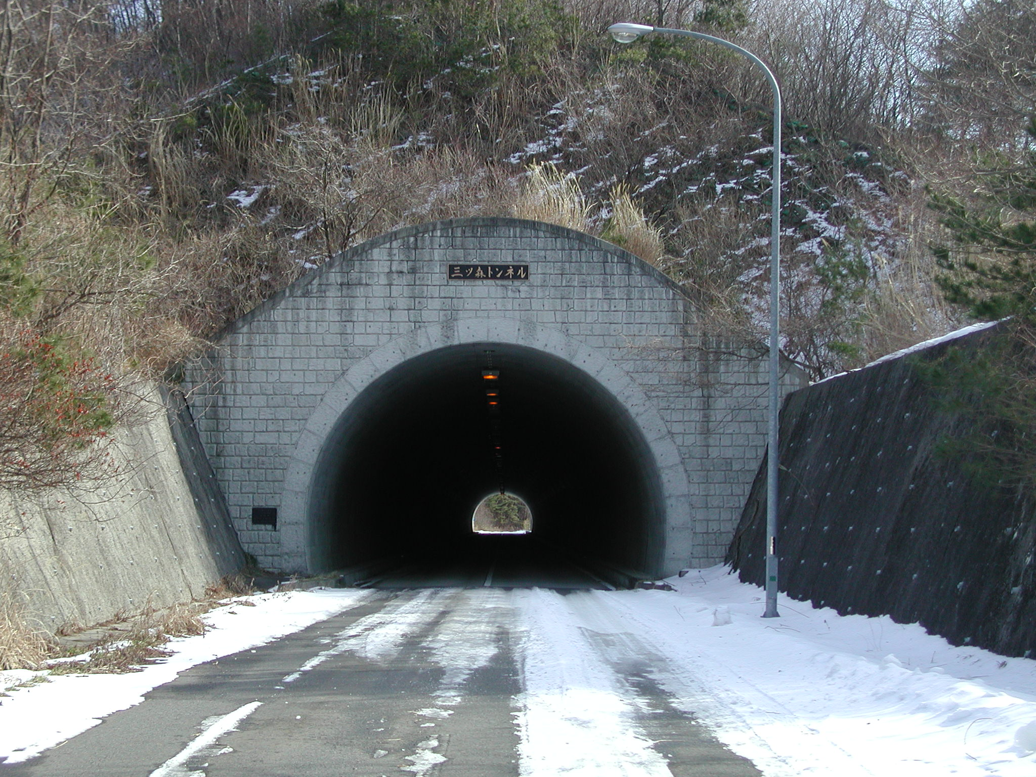 Mitsumori tunnel in Fukushima pref.